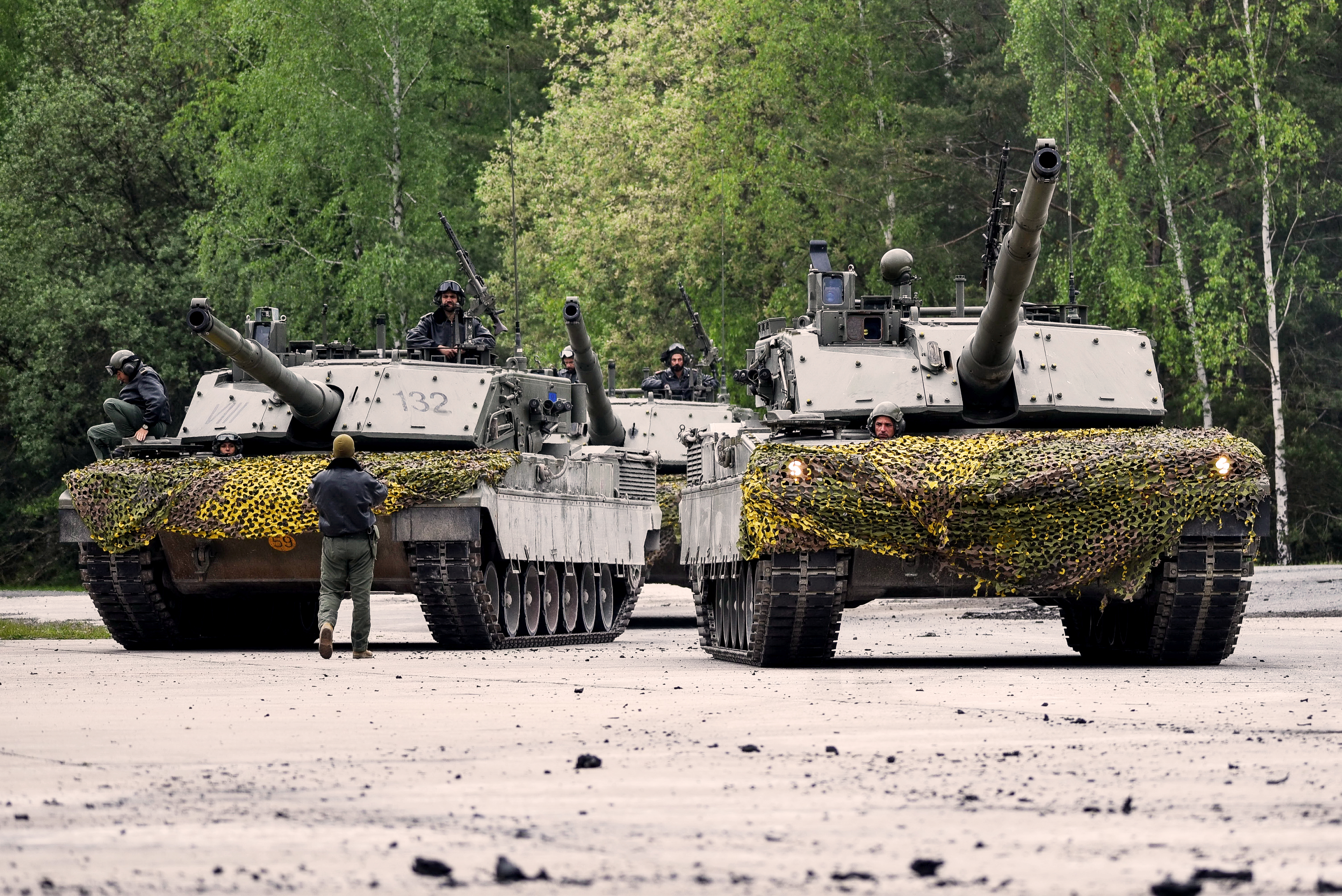 The Italian platoon, arrive to the start point with their Ariete tanks, during the Strong Europe Tank Challenge (SETC), at the 7th Army Joint Multinational Training Command’s Grafenwoehr Training Area, Grafenwoehr, Germany, May 12, 2016. The SETC is co-hosted by U.S. Army Europe and the German Bundeswehr, May 10-13, 2016. The competition is designed to foster military partnership while promoting NATO interoperability. Seven platoons from six NATO nations are competing in SETC - the first multinational tank challenge at Grafenwoehr in 25 years. For more photos, videos and stories from the Strong Europe Tank Challenge, go to (U.S. Army photo by Spc. Nathanael Mercado/Released)